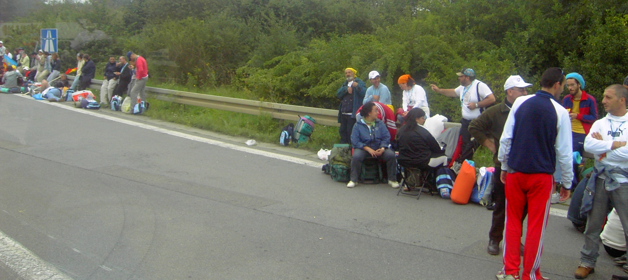 Pilgrims blocking the roads (and almost the motorway) while leaving Marienfeld.